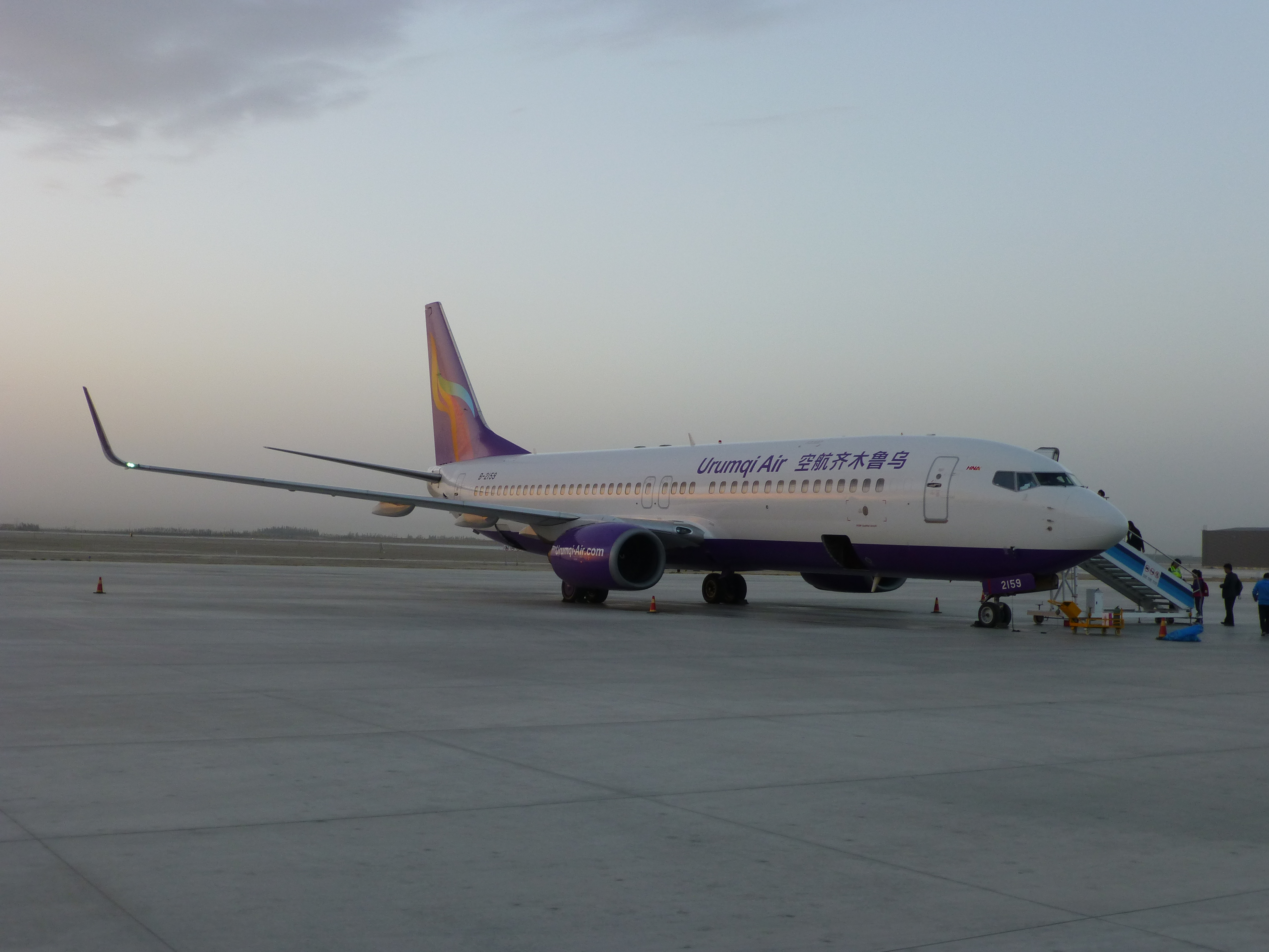 Urumqi Air Boeing 737-800 registration number B-2159